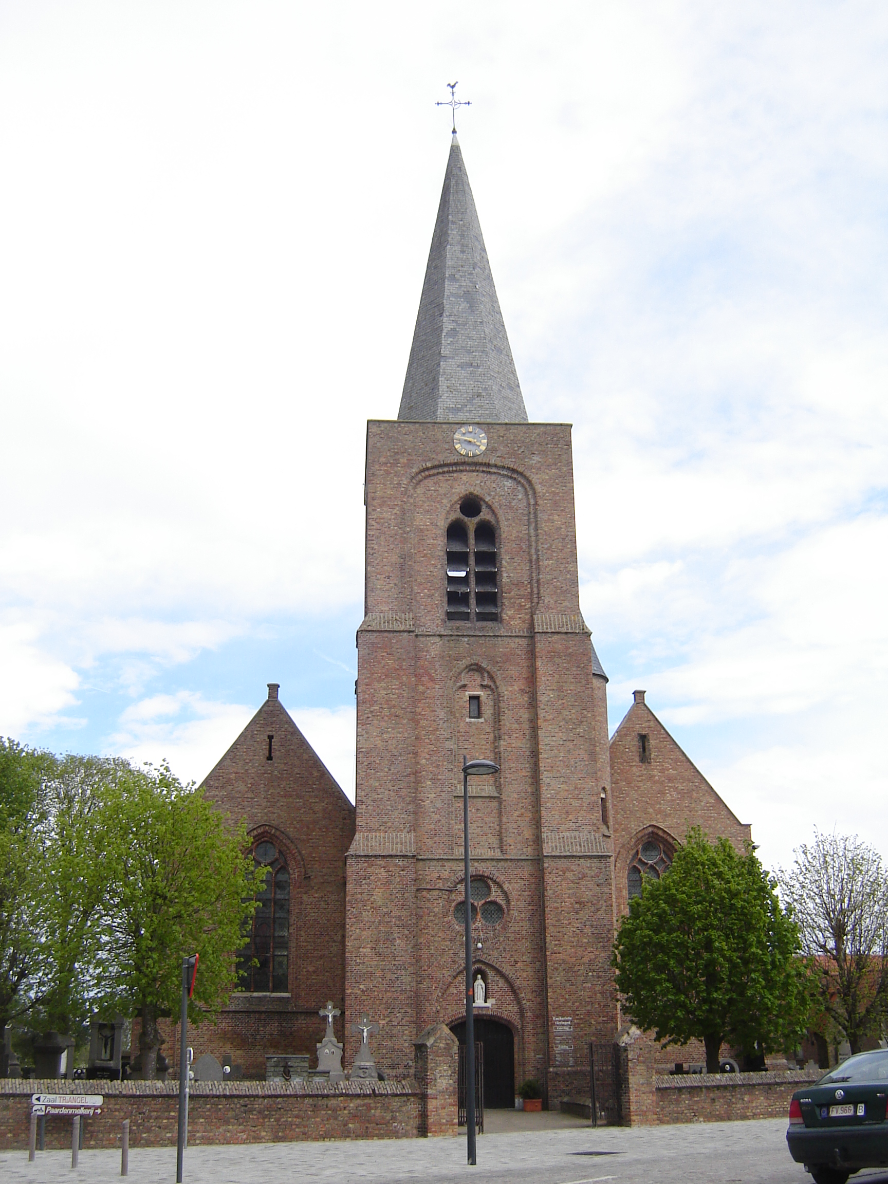 Church of Saint Peter in Nieuwkapelle. Nieuwkapelle, Diksmuide, West Flanders, Belgium